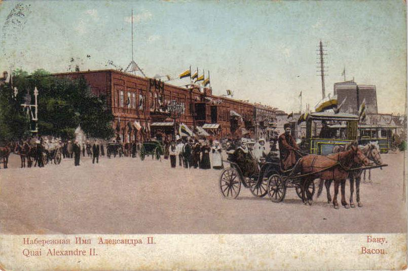 Old Baku